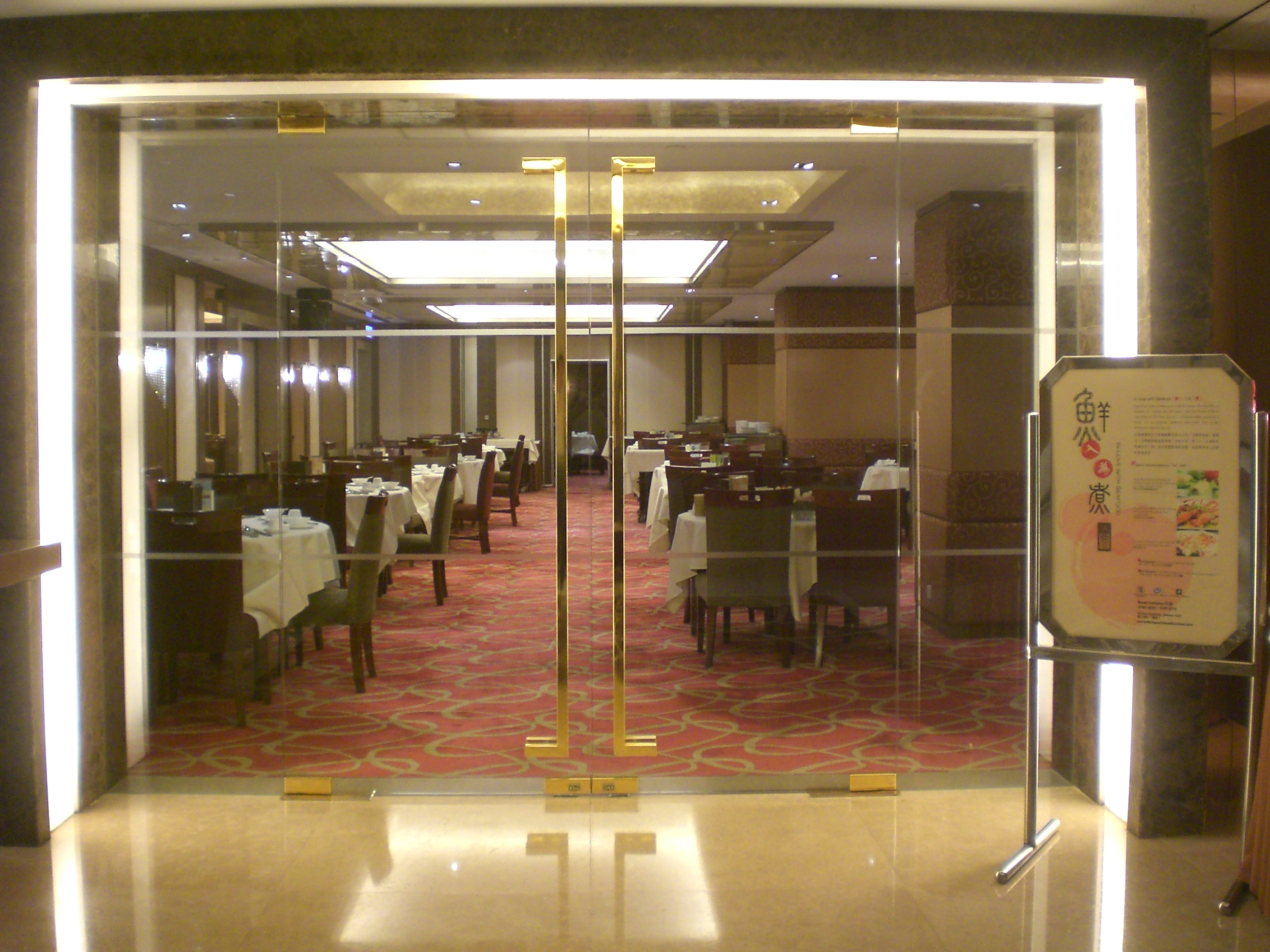 九龍維景酒店中餐廳, Metropark Hotel Kowloon, Waterloo Road, Hong Kong.